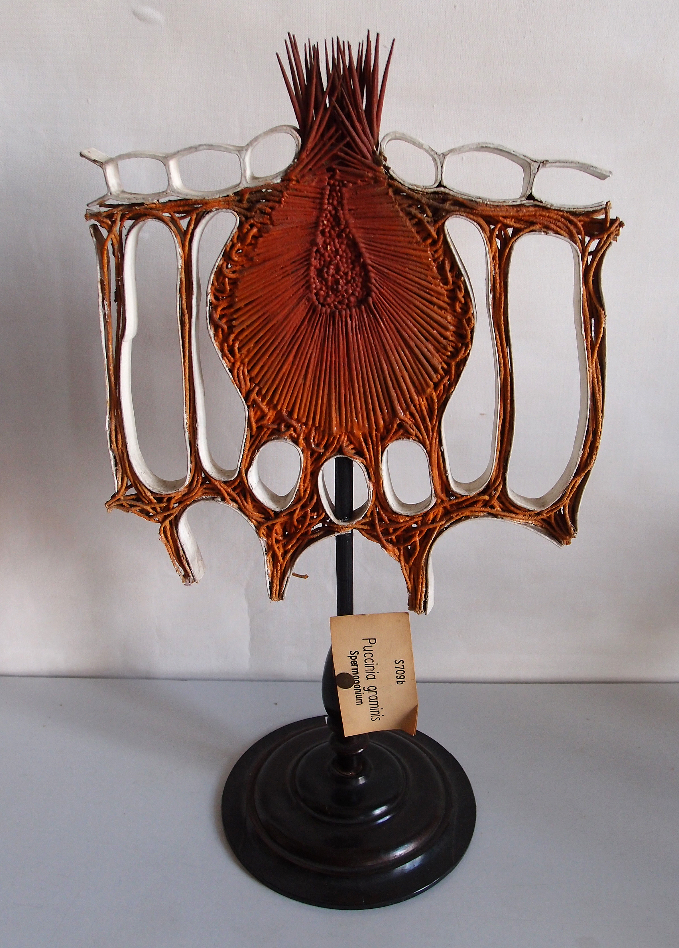 Model from the collection of the Botanical Museum in Greifswald, Germany. . see also for more information on the models